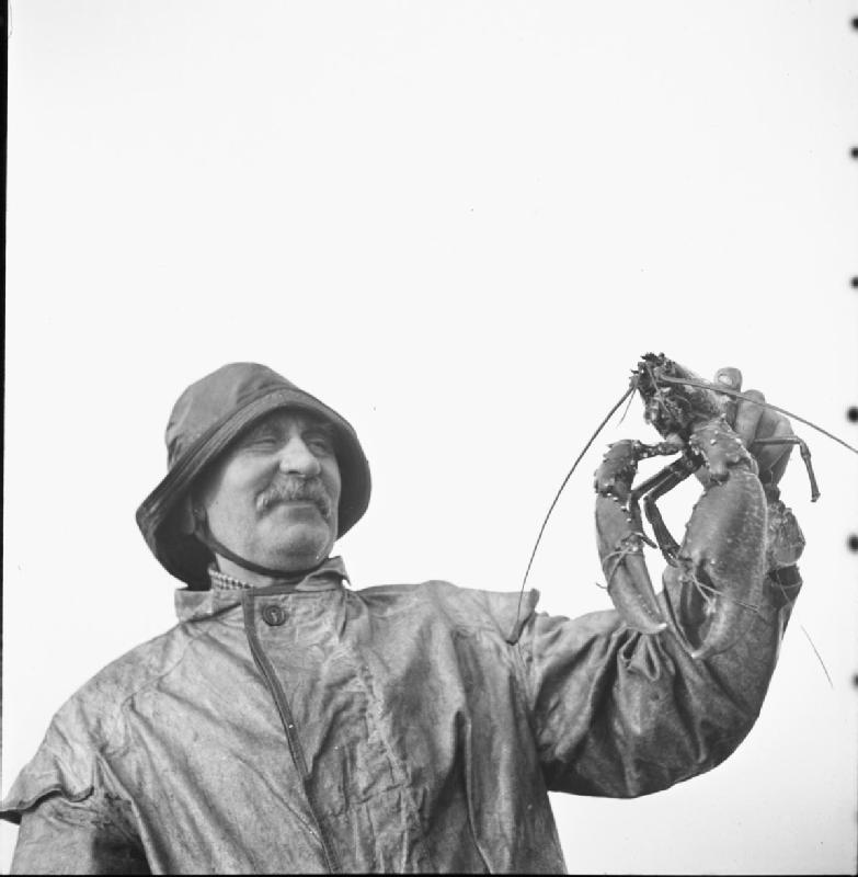 Holy Island Plays Its Part- Everyday Life on Lindisfarne, 1942 A fisherman, dressed in oilskins and sou' wester, holds up a freshly-caught lobster on the deck of the 'ELSIE', in the sea off Lindisfarne.